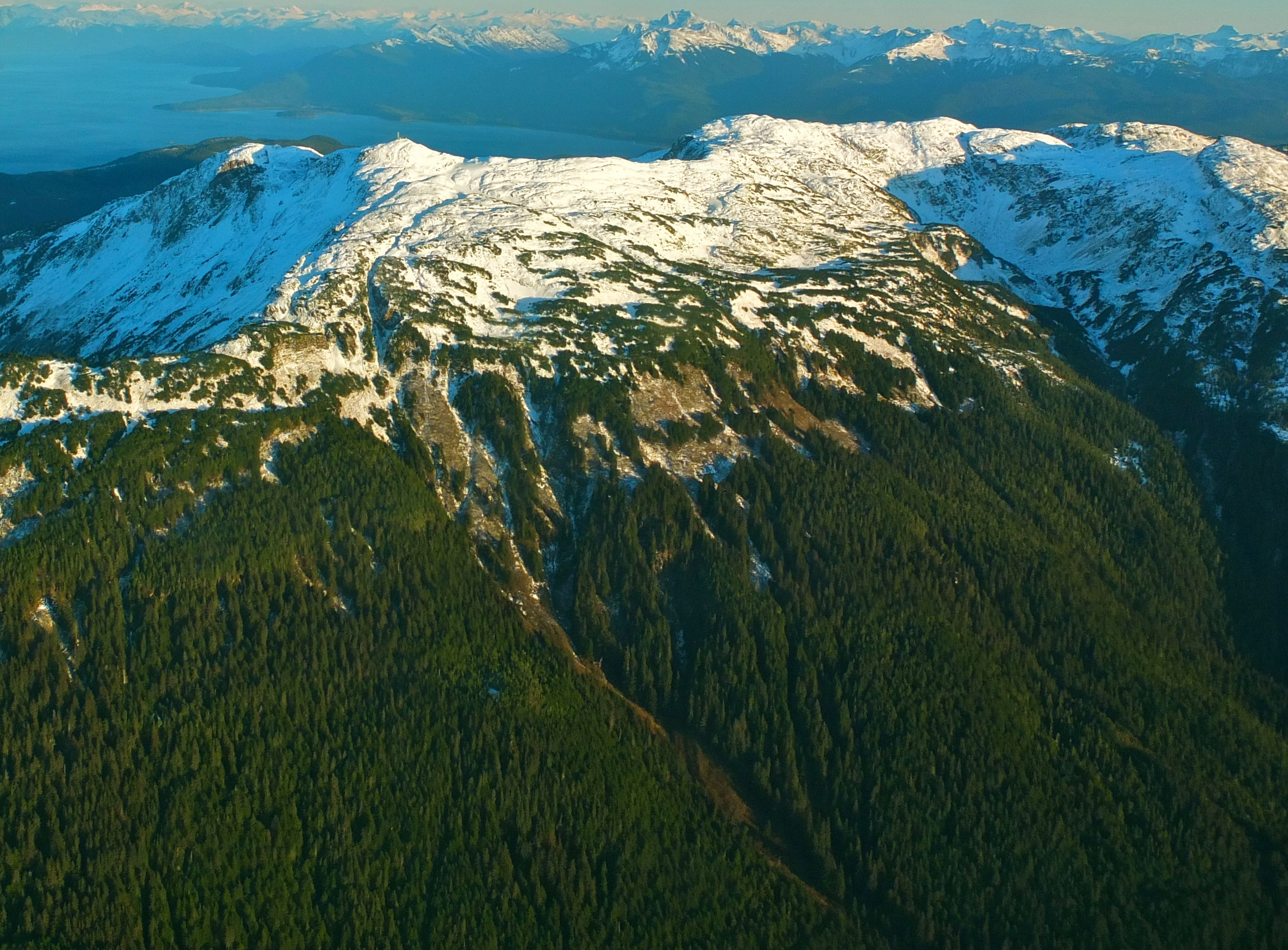 Aerial view of Mount Robert Barron, looking east.